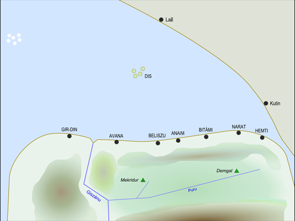 Schematic chart of Gáma, a fictional planet of the Hungarian novel Távoli tűz (Faraway Fire), written by Péter Zsoldos, first publication in 1969. The main locale of the story is Avana.